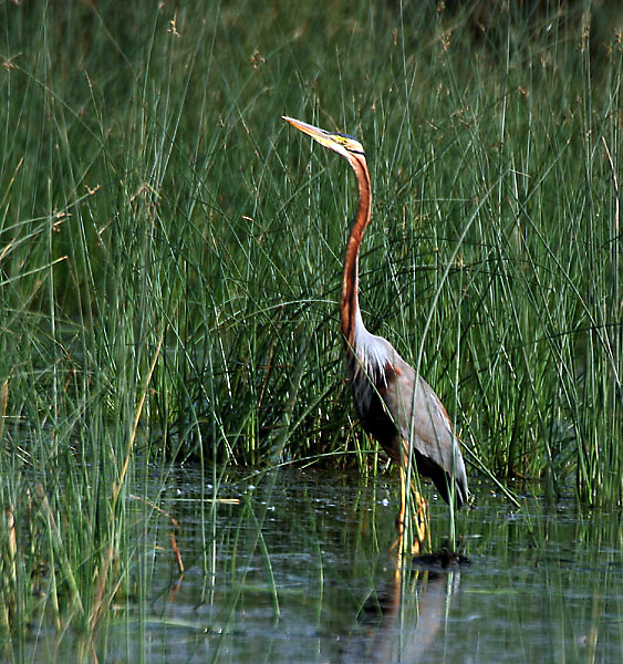 Purple Heron Ardea purpurea at/ near Hodal in Faridabad District of Haryana, India.